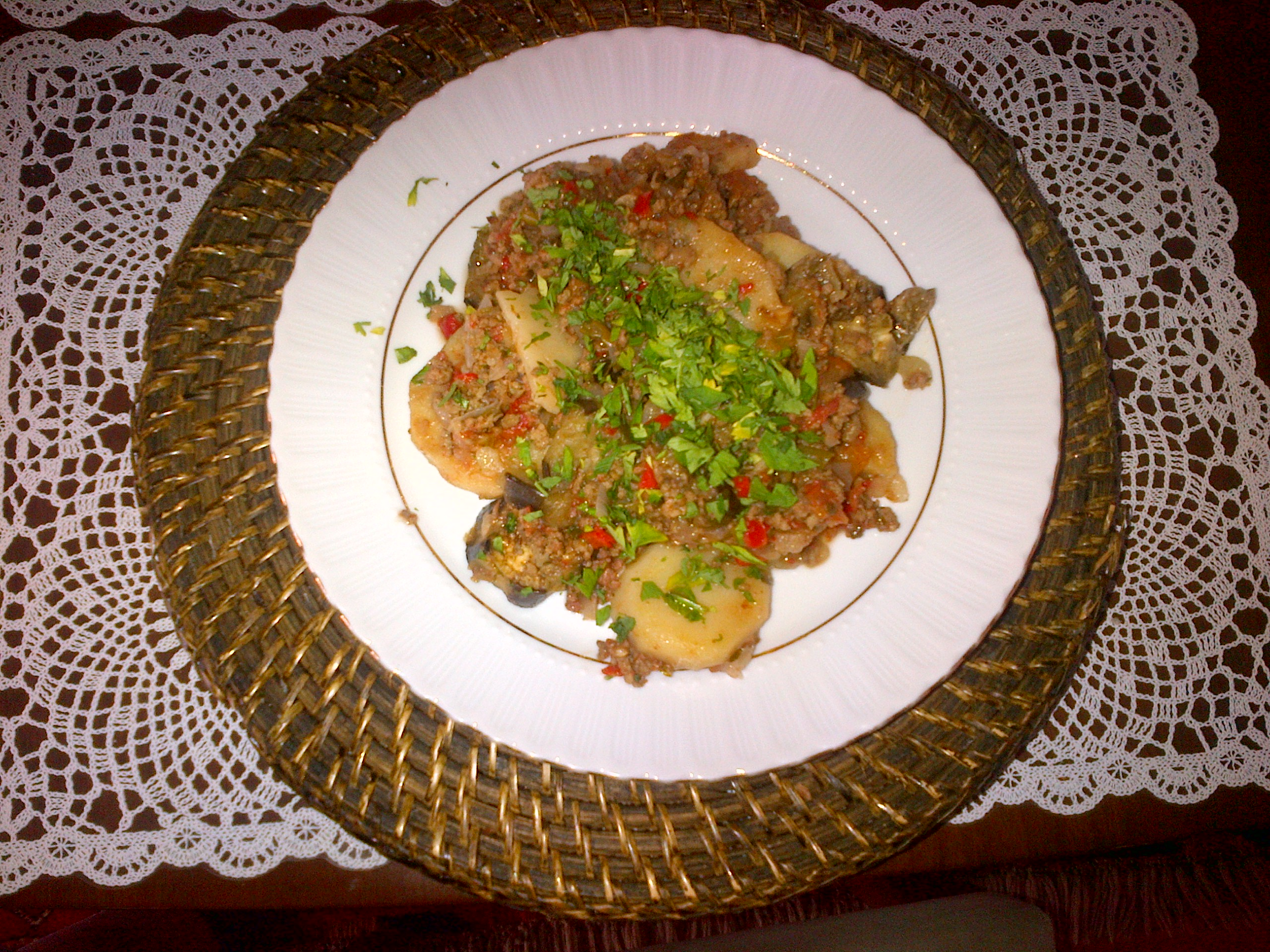 Patatesli patlıcan oturtma, from the Turkish cuisine. "Oturrtma" can be considered as a "pure Turkish" synonym for "musakka" in Turkey but is used not only for the eggplant dish.